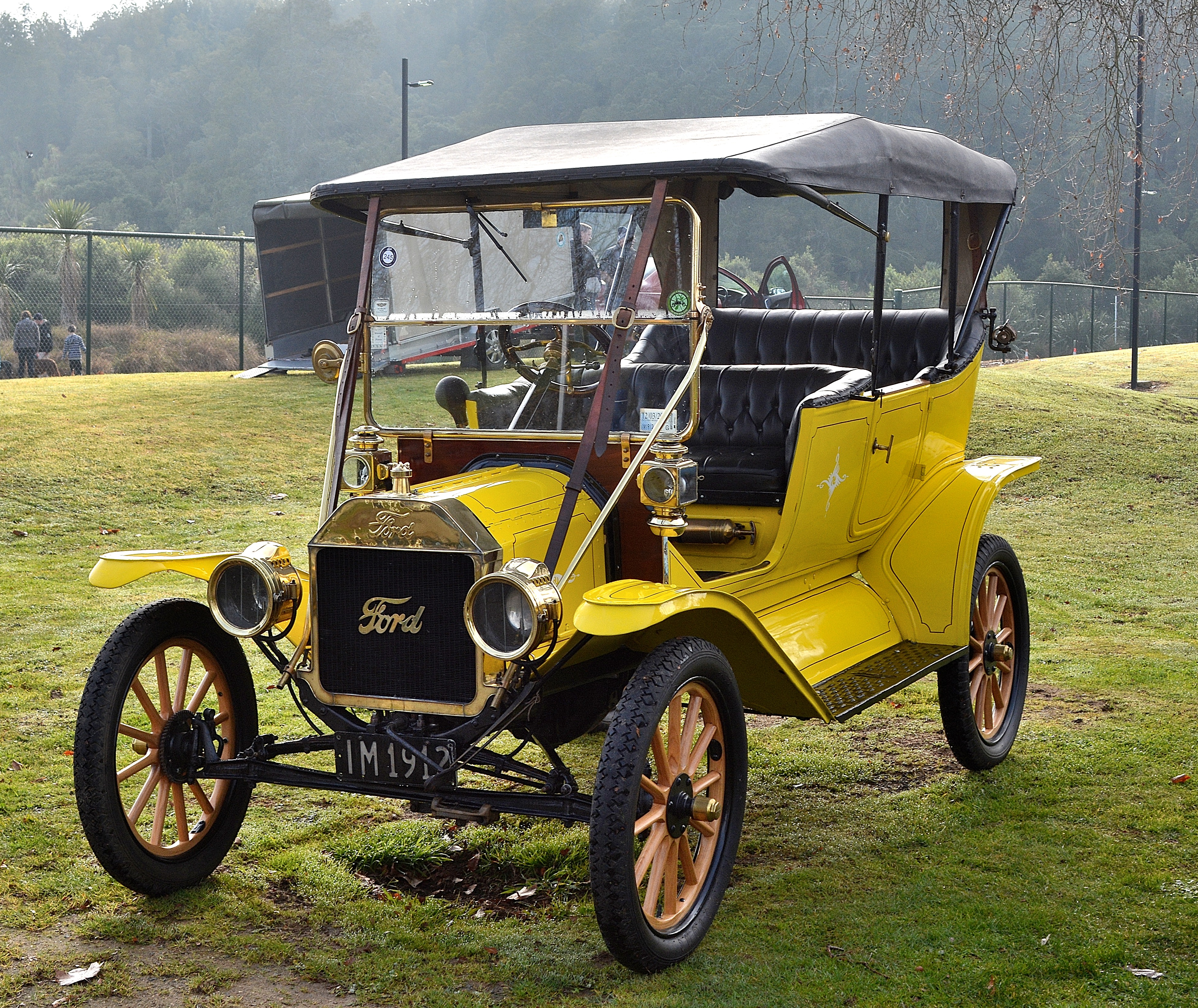 Ford Day Hamilton 2014,NZ